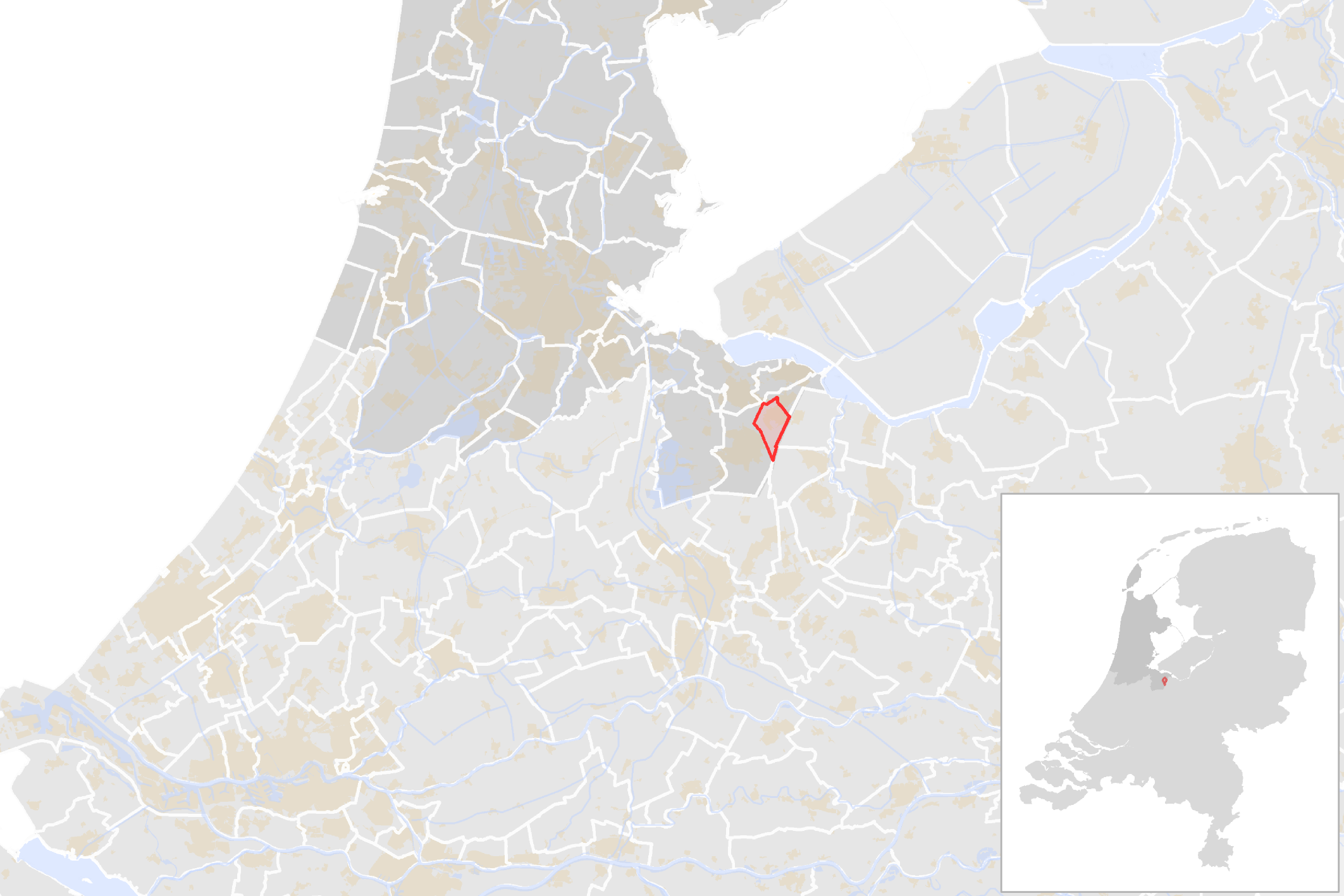 Locator map showing municipality boundary of one of the 390 Dutch municipalities (as of 2016)